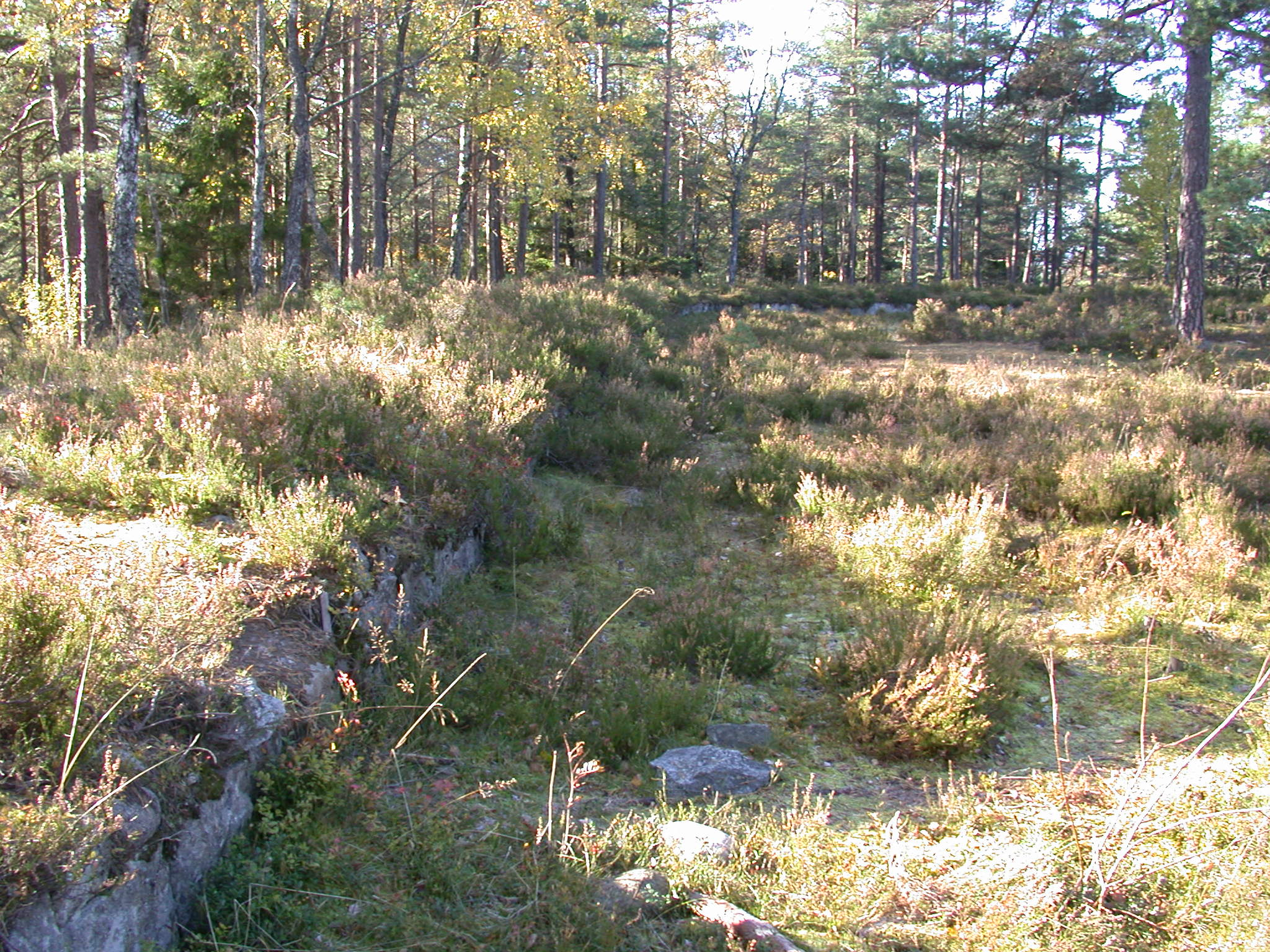 Parapet on Isesjo battery